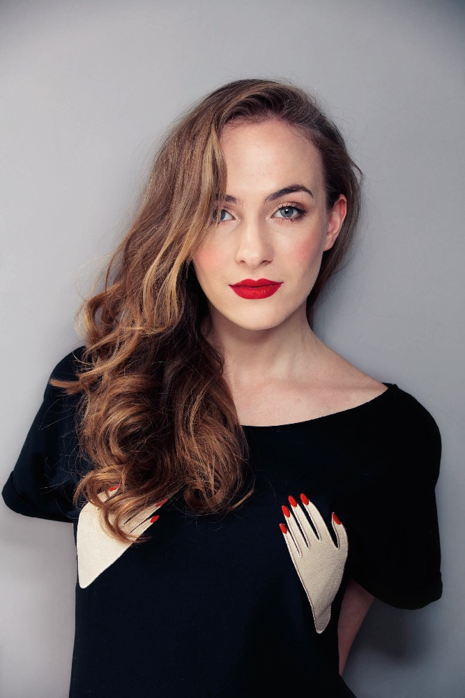 Elizaveta Maximová by Robert Tichý